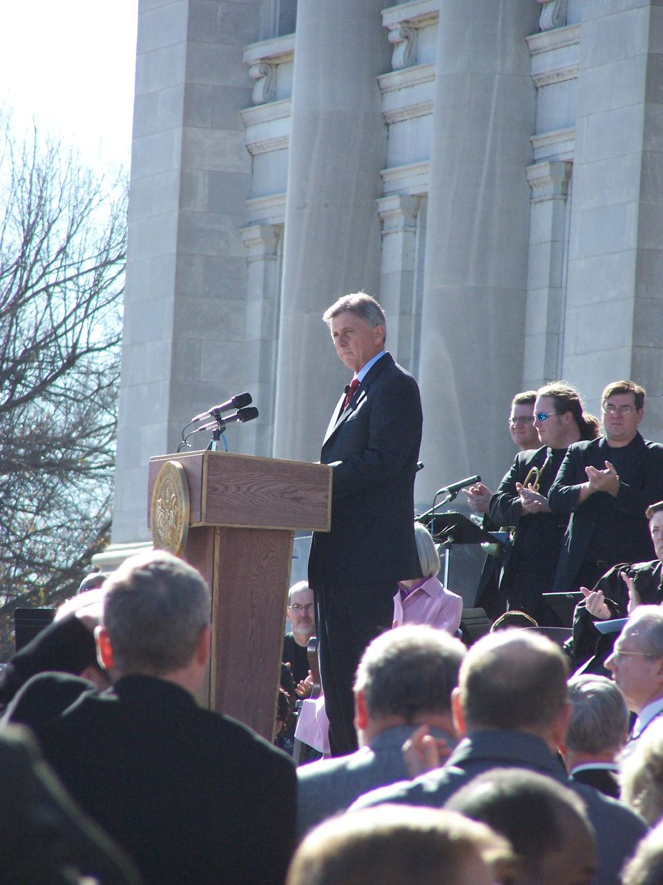 Pictures from the inauguration of Mike Beebe as Arkansas' Governor. State Capitol, Little Rock, AR. January 9, 2007.